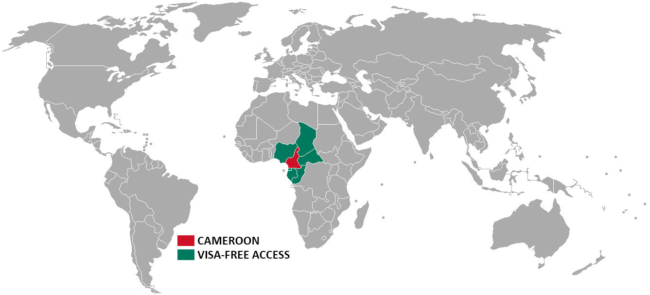 Visa policy of Cameroon Cameroon Visa exempt